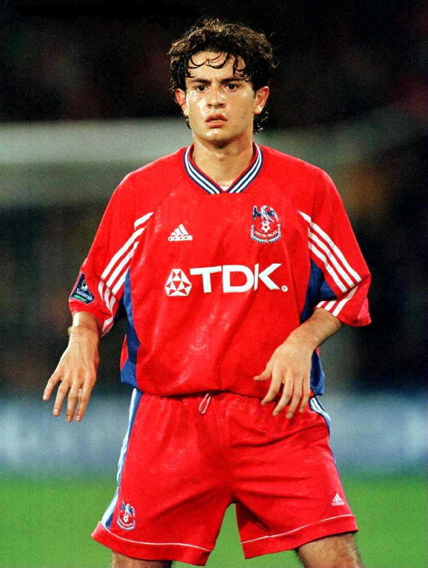 Picture of Nick Rizzo in English Championship Game against Wolverhampton Wanderers Oct 98'